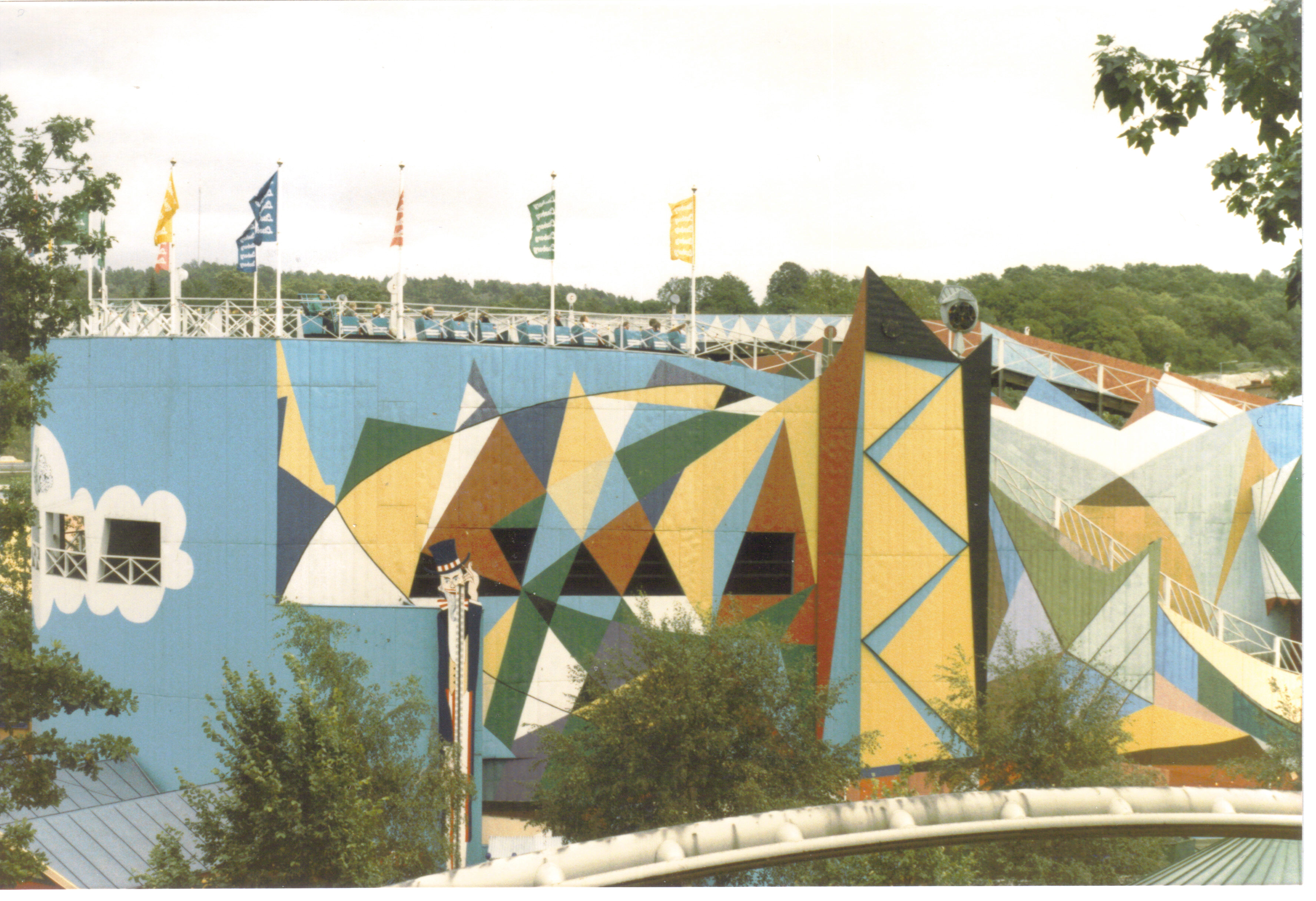 Gamla Bergbanan roller coaster at Liseberg on its last weekend 1987.